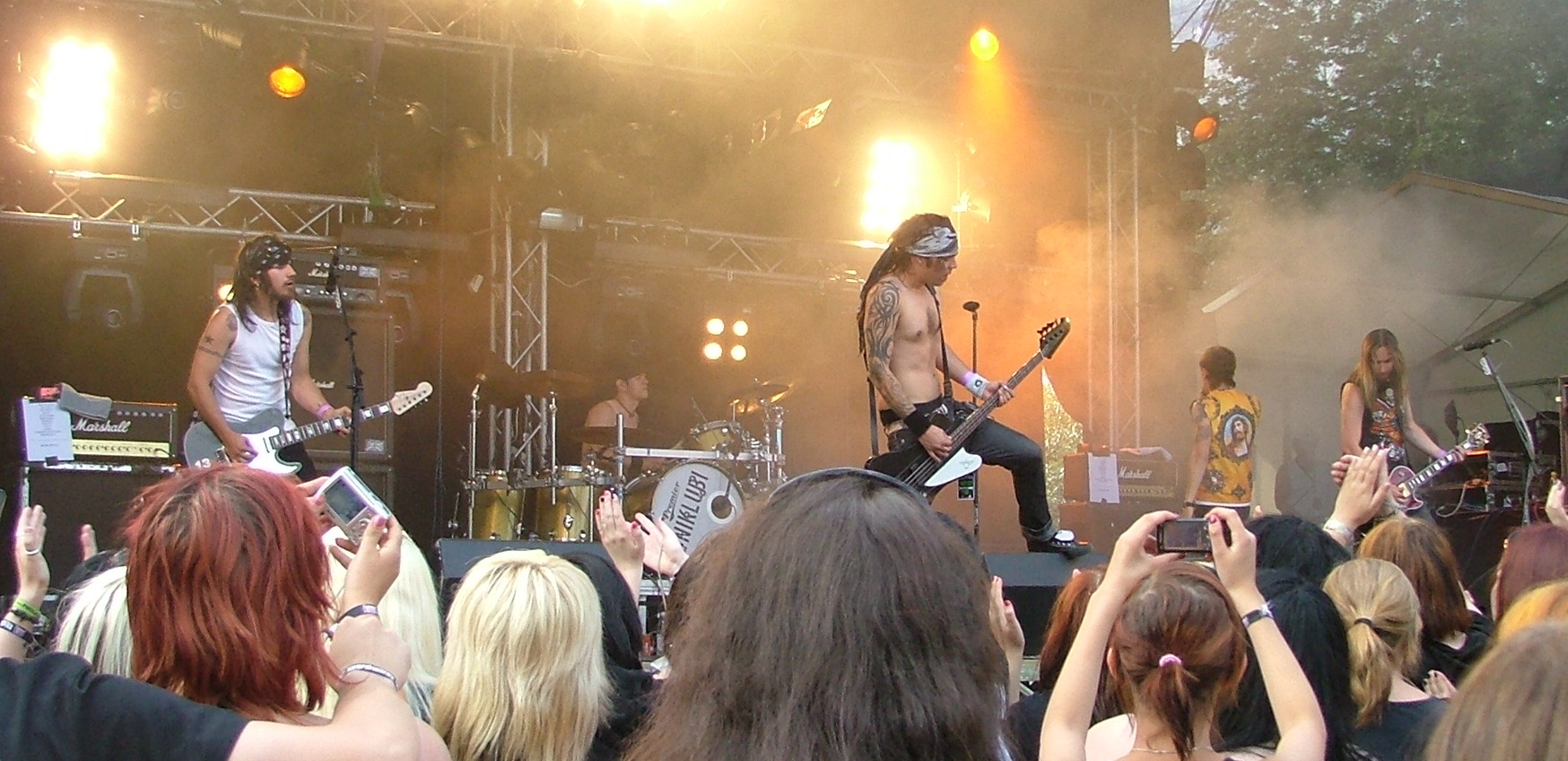 Finnish rock band Uniklubi in Kuopio at Rockcock-musicfestival